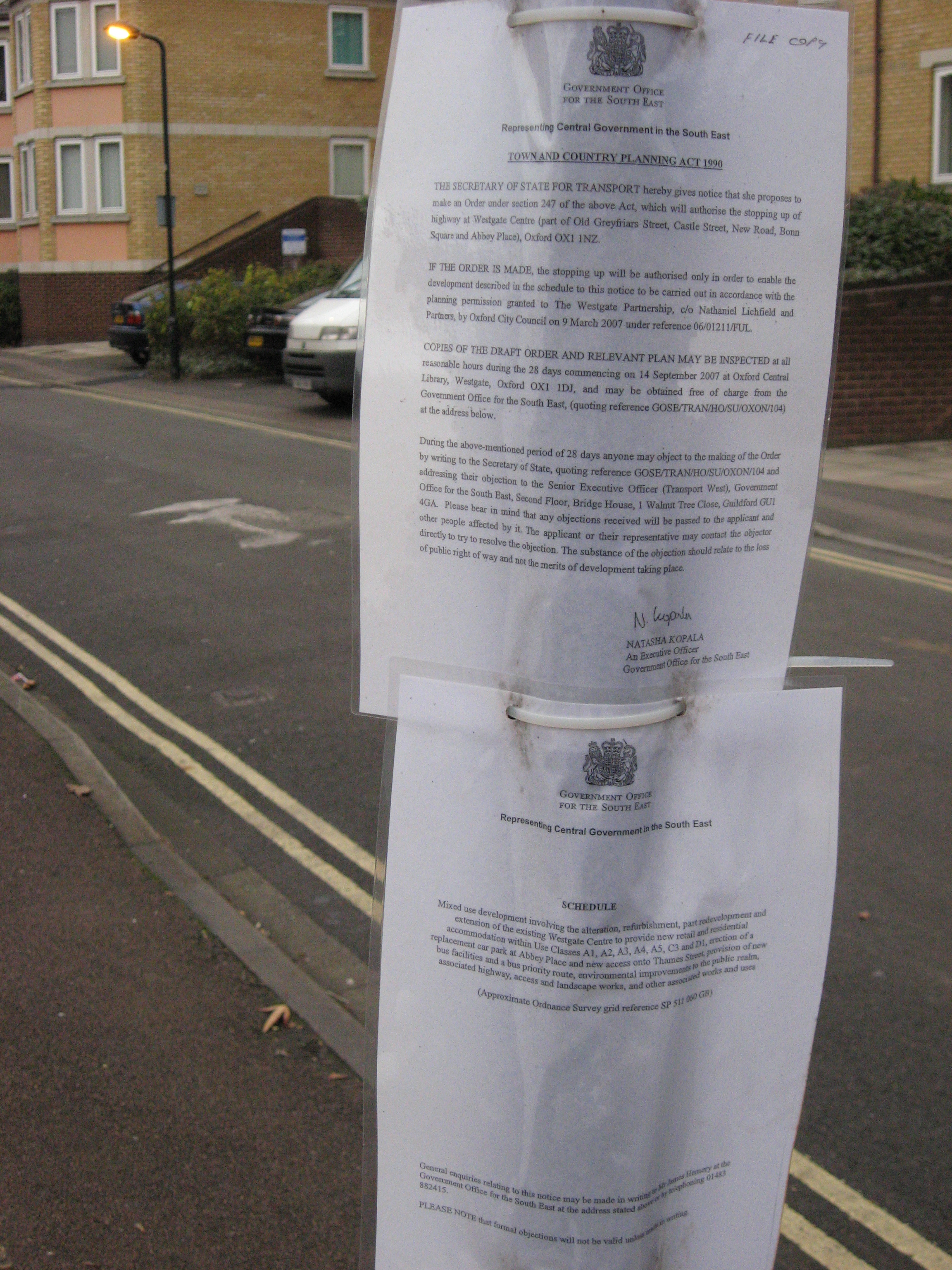 A notice in Oxford from the Government Office for the South East, made under the Town and Country Planning Act 1990.